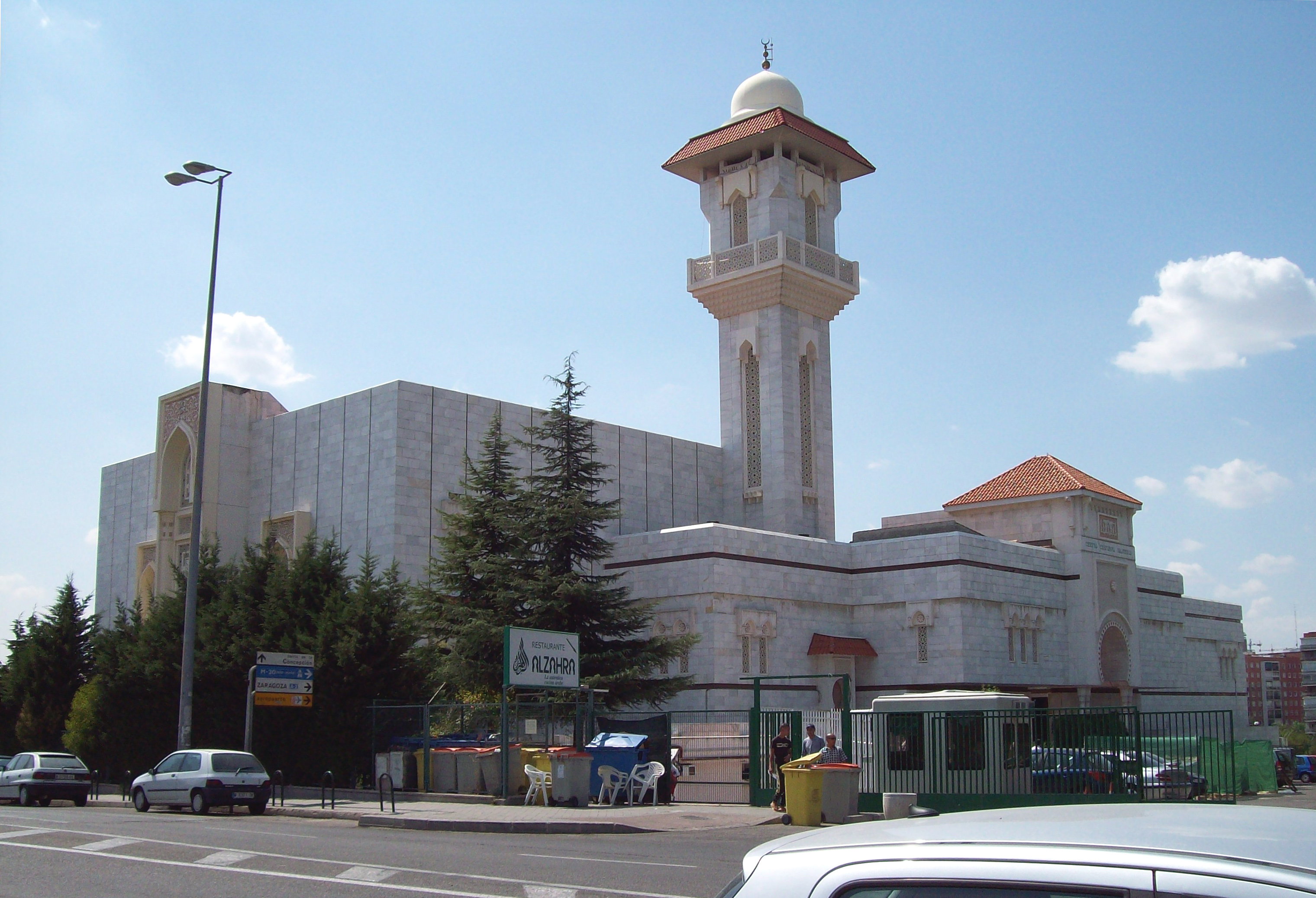 View, from the north-east angle, of the Islamic Cultural Centre and Mosque of Madrid (Spain).